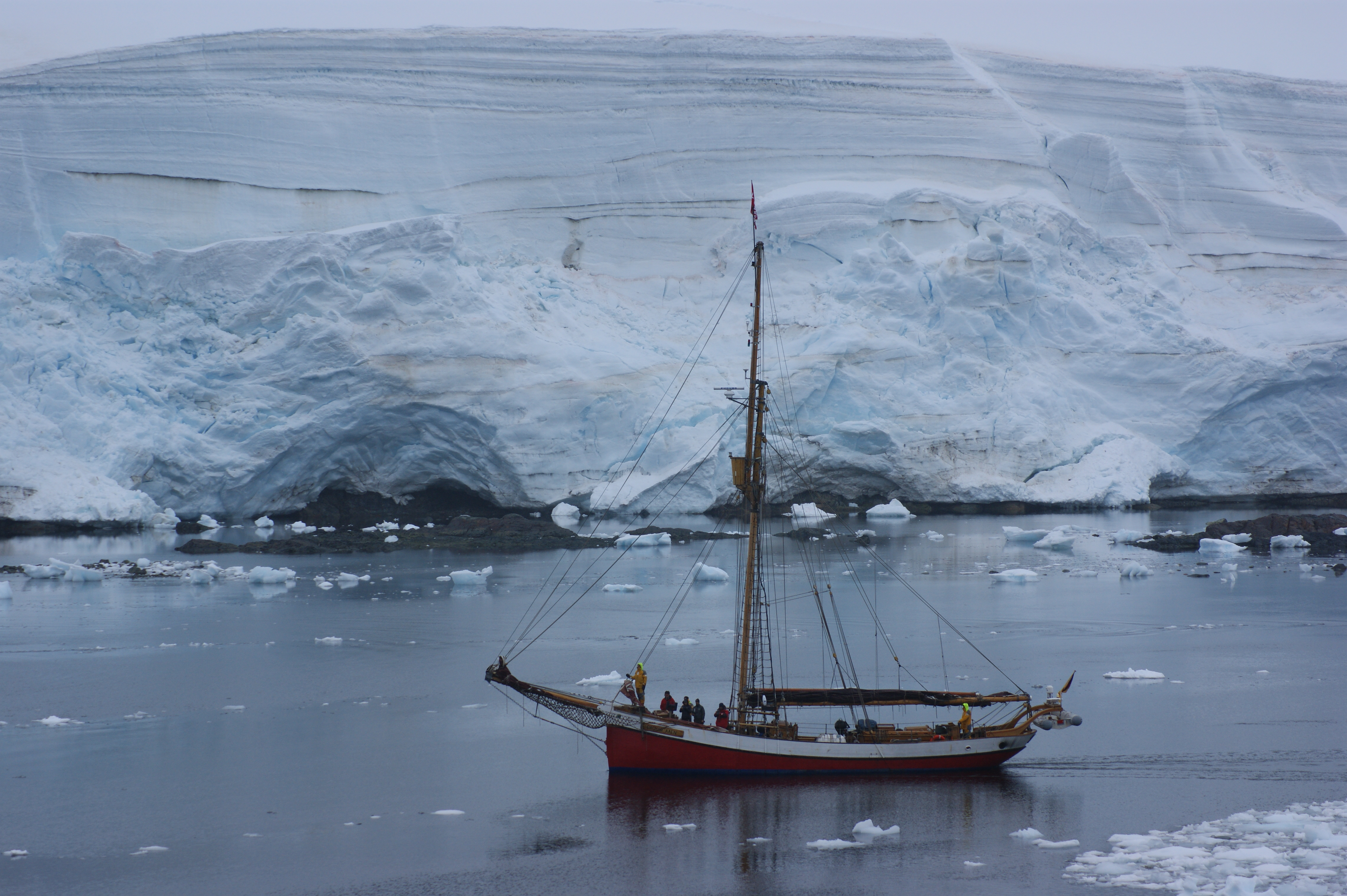 Dagmar Aaen in Antarctic Sound